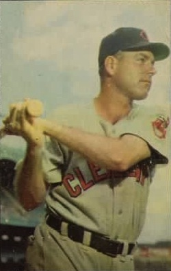 Cleveland Indians outfielder Dale Mitchell.